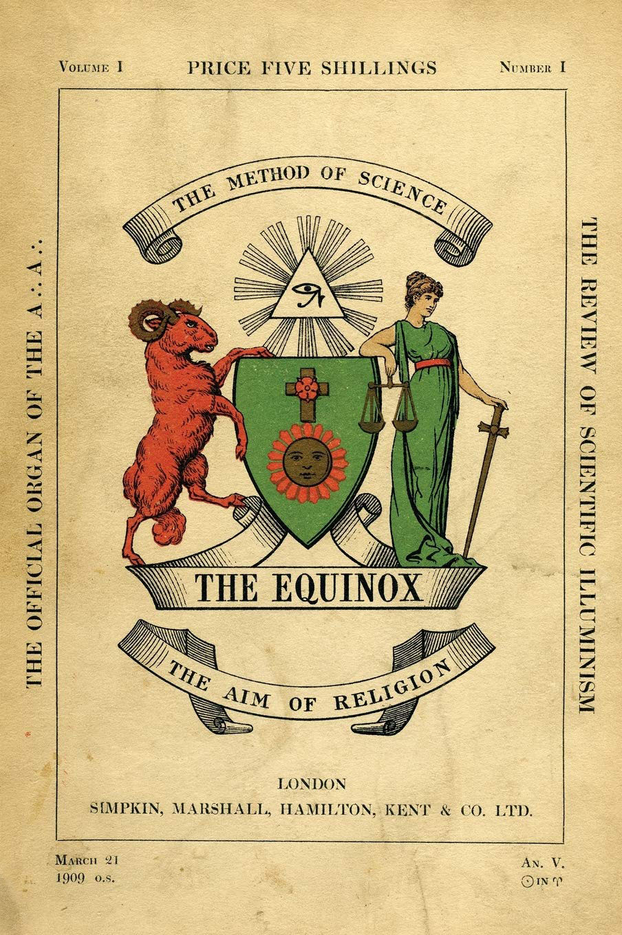 Cover of The Equinox, Volume 1, No. 1, March 1909